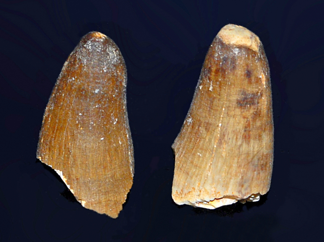 Fossil teeth of Trichiurus oshoshunensis from Khouribga (Morocco.)